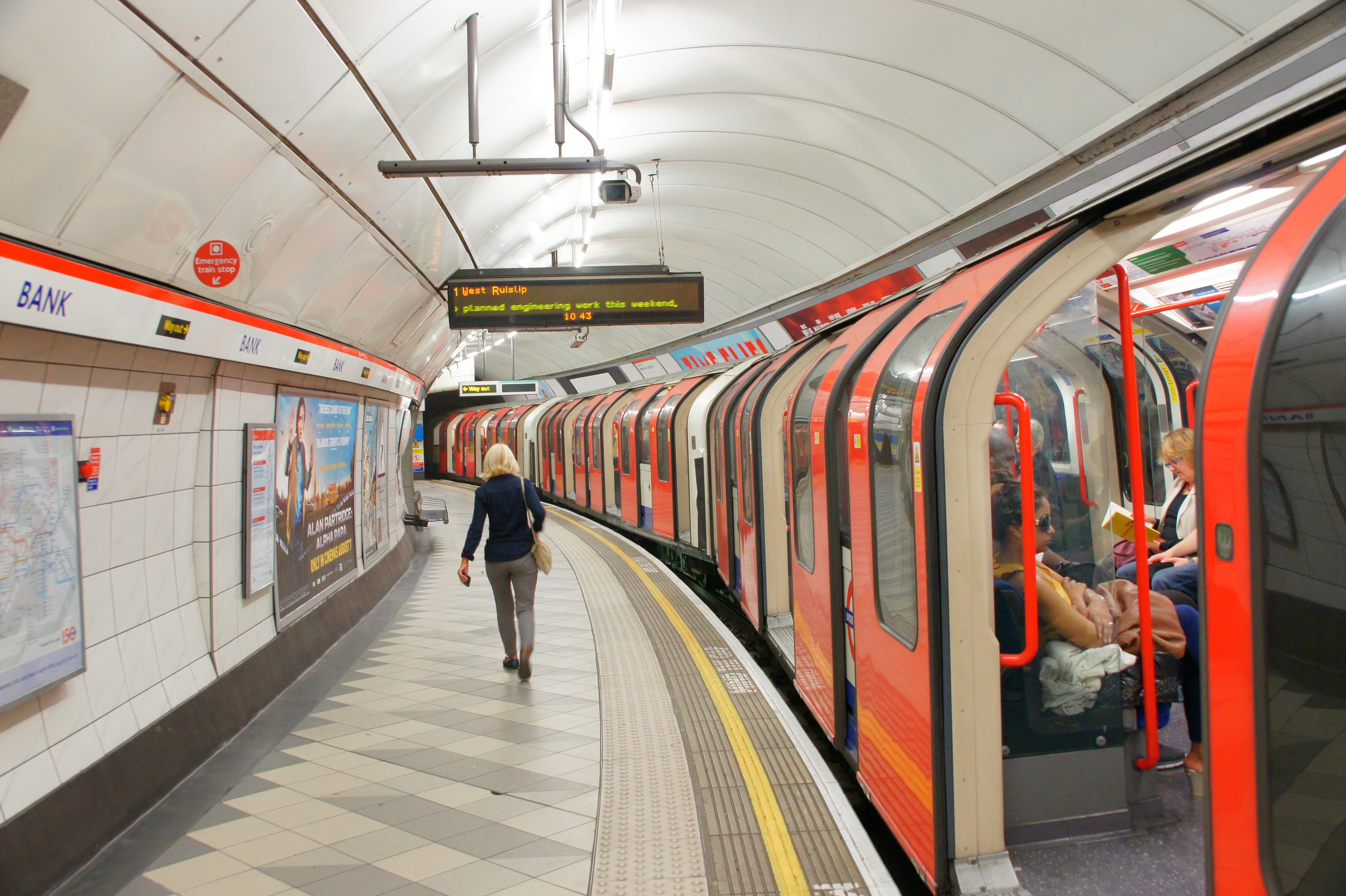 BANK-1 110813 CPS